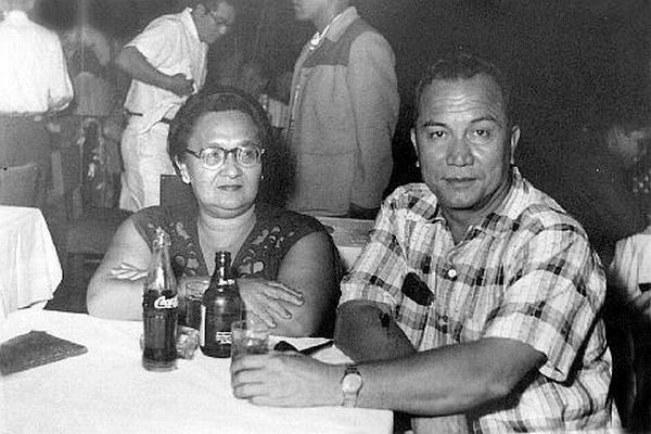 Circa 1950. Isabela, Basilan City - - The late beloved and legendary city mayor of Basilan, Leroy S. Brown, with his lovely wife, Felisa Brown, in one of the numerous social functions that both have graced during their time. The indefatigable mayor, who is a good orator, is a welcome fixture in private and public functions in the island city of Basilan. Following in the foot-steps of his late father, Dick Brown is currently a city councilor in the city of Isabela. He also took over the operations of the family’s agricultural estate in Panunsulan, Isabela. (Picture courtesy of Alexis G. Strong)